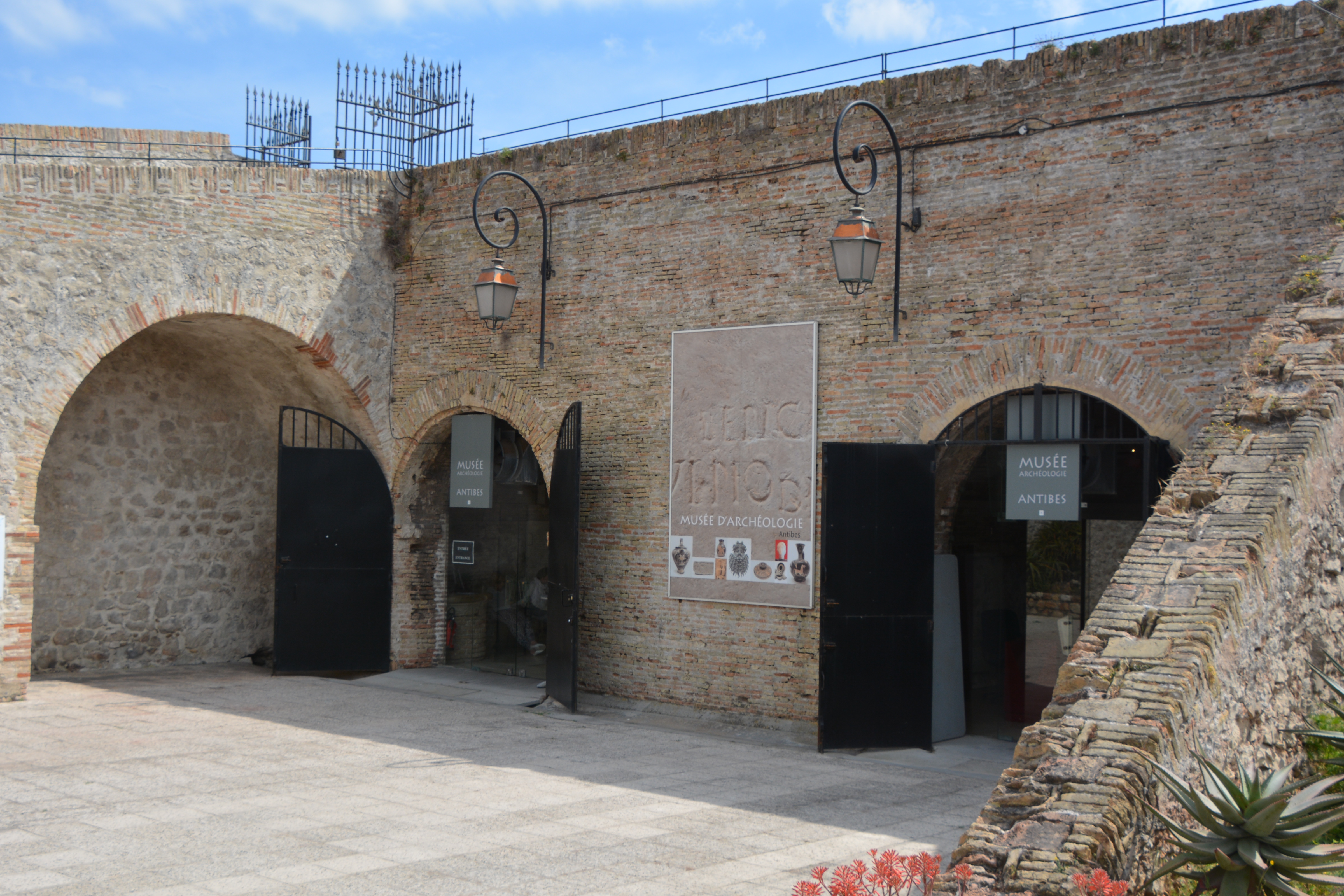 Musee d'archeologique à Antibes, entrée